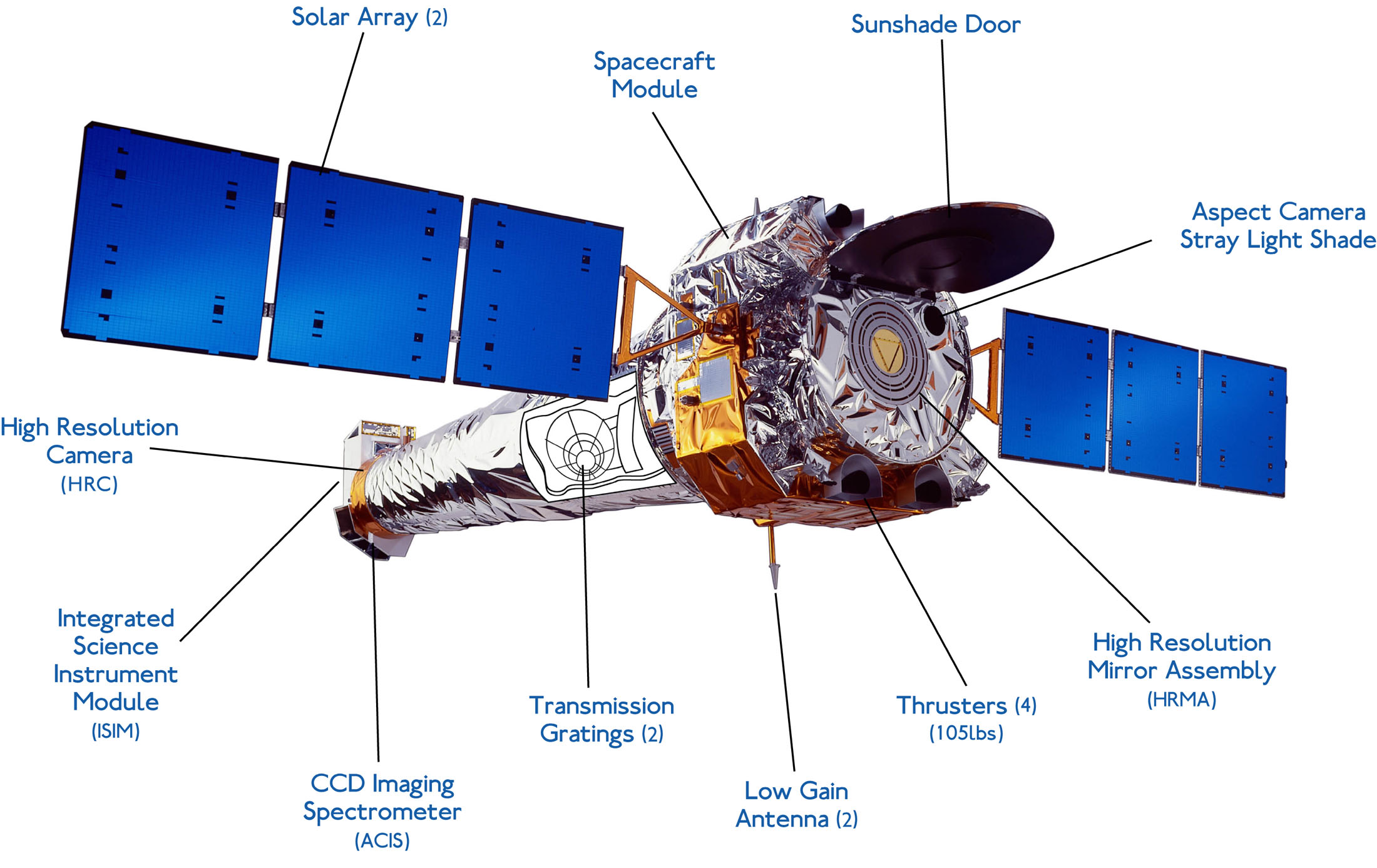 Labeled illustration of the Chandra X-ray Observatory.